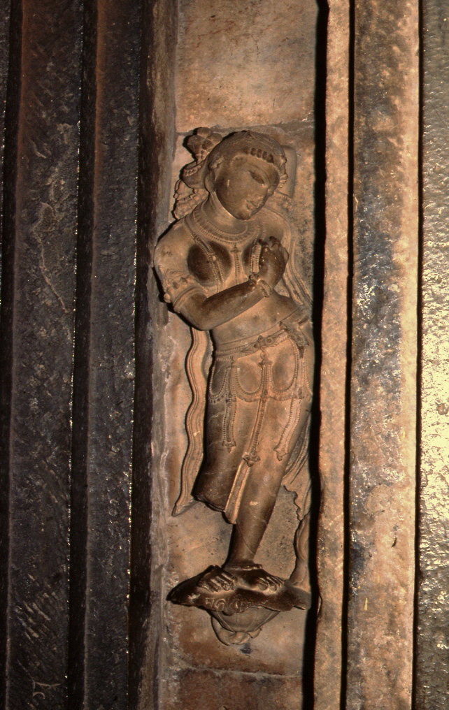 Apsara, Lakshmana Temple, Khajuraho, Madhya Pradesh, India.